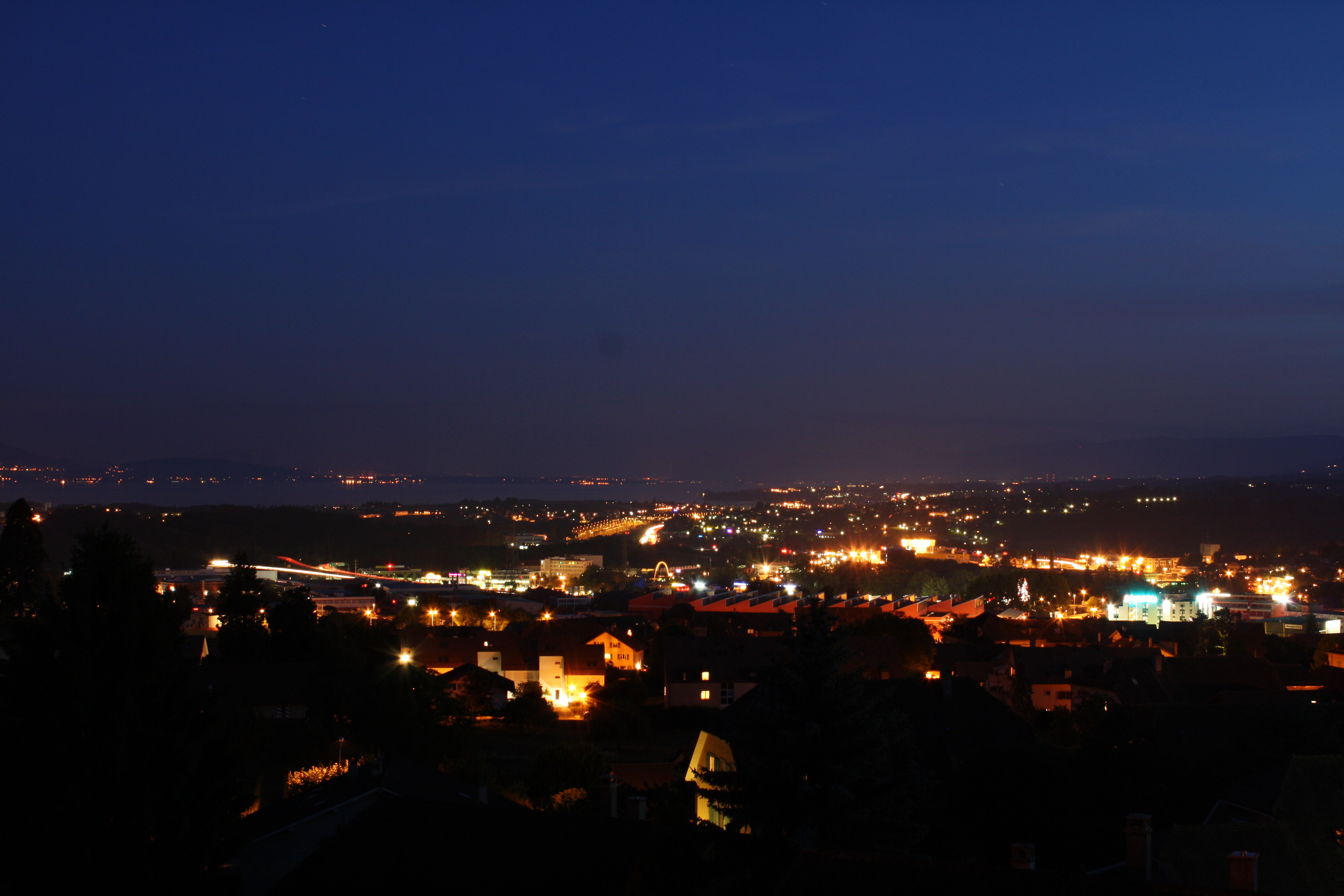 Crissier, Vaud, Switzerland (a suburb of Lausanne) at night